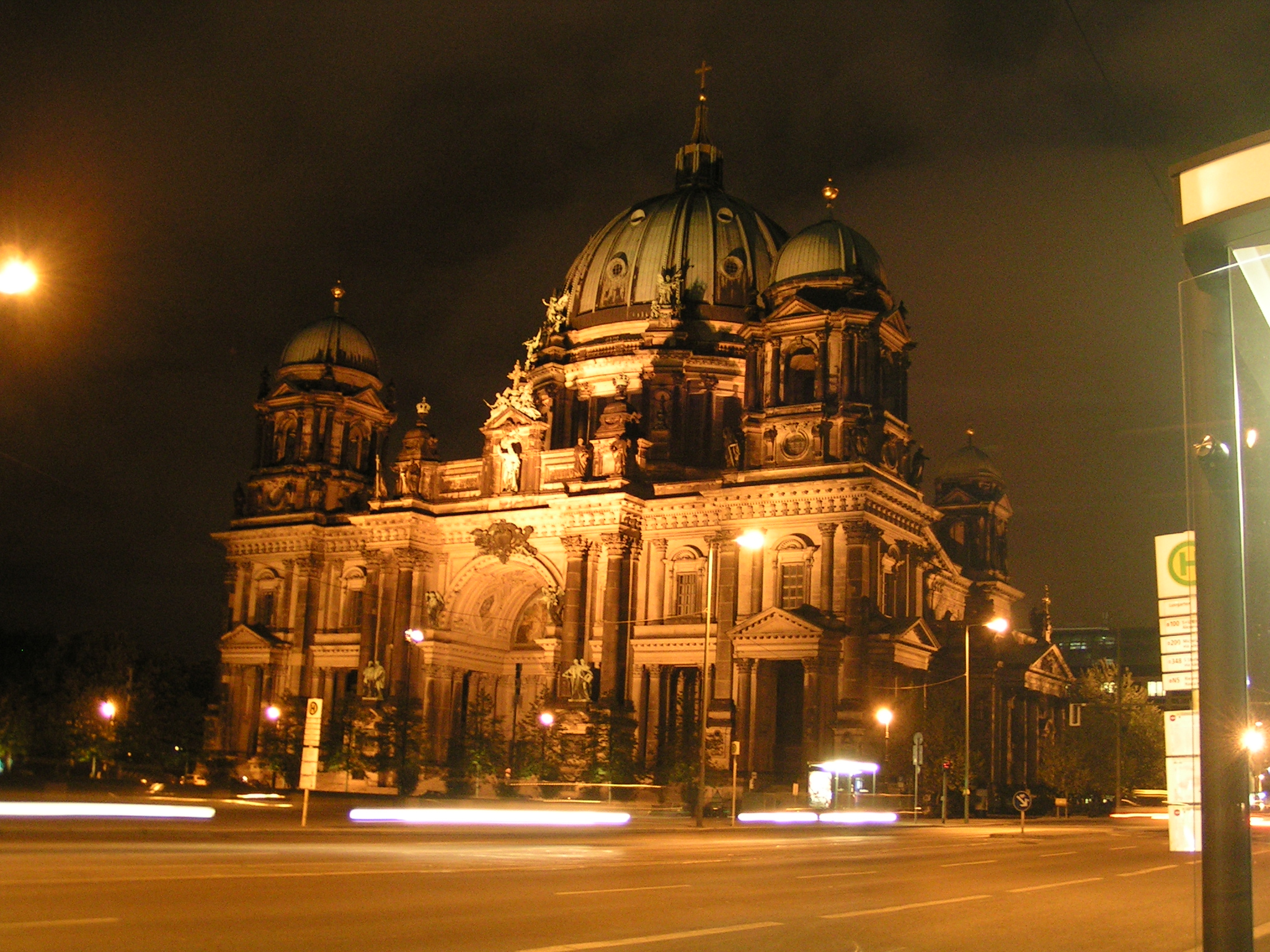 Berlin cathedral by night: Berliner Dom bei Nacht Photographer: David Herrmann photographed at Berlin, 07.05.2005